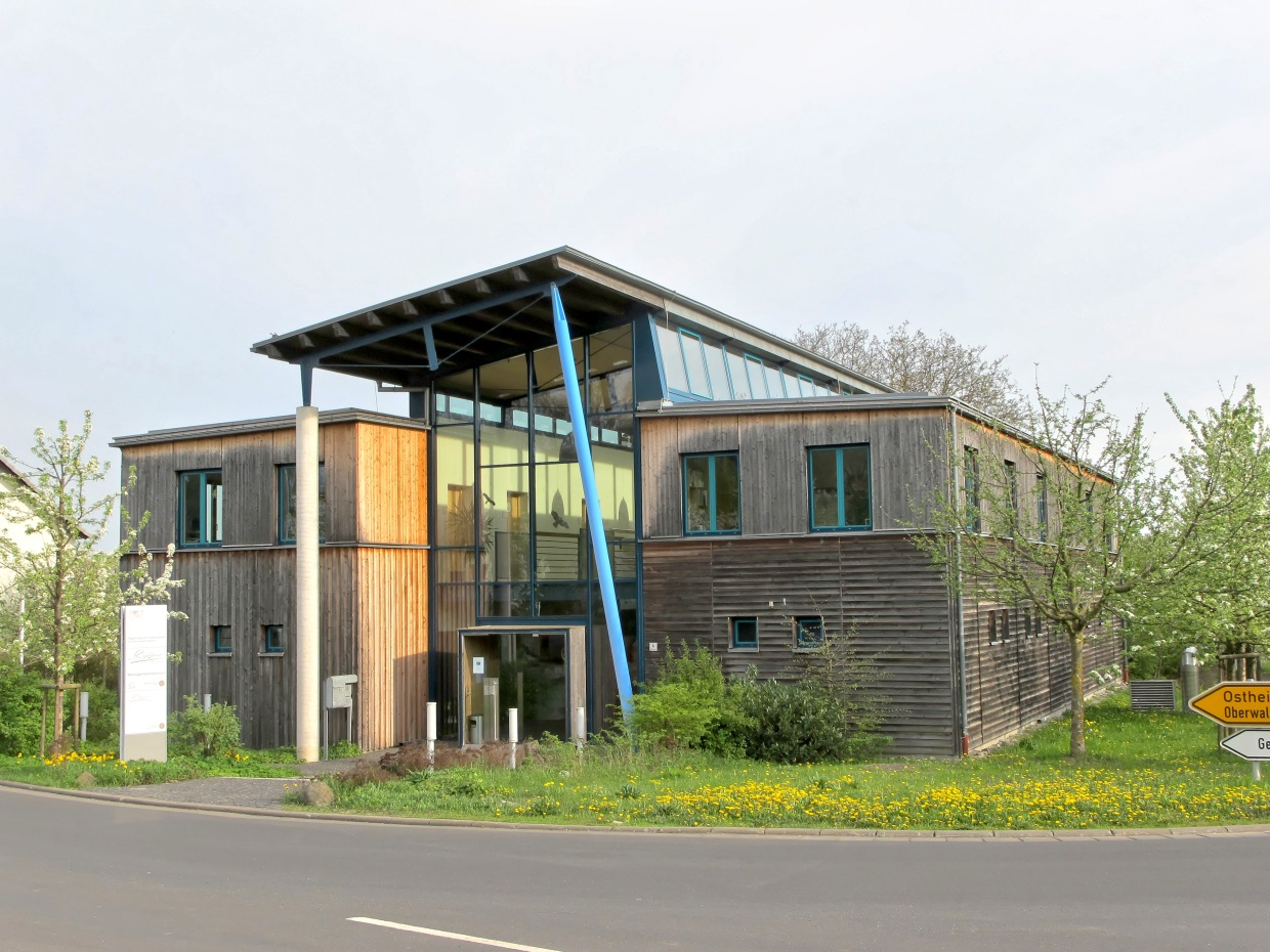 Municipality of Oberelsbach, Tourist Info